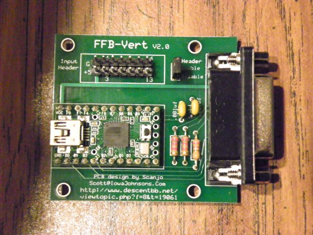 User created game port to usb adapter